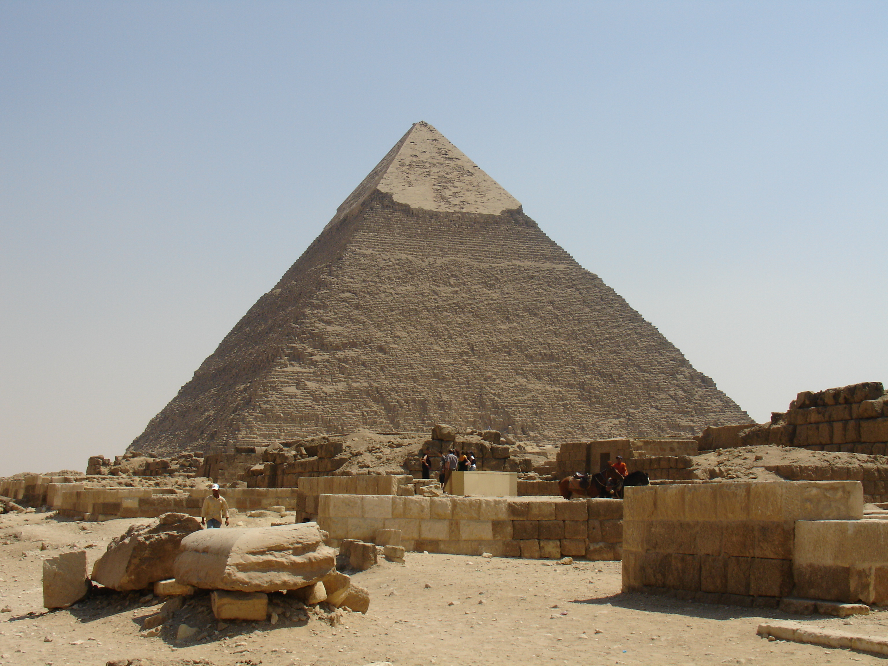 Khafre's Pyramid